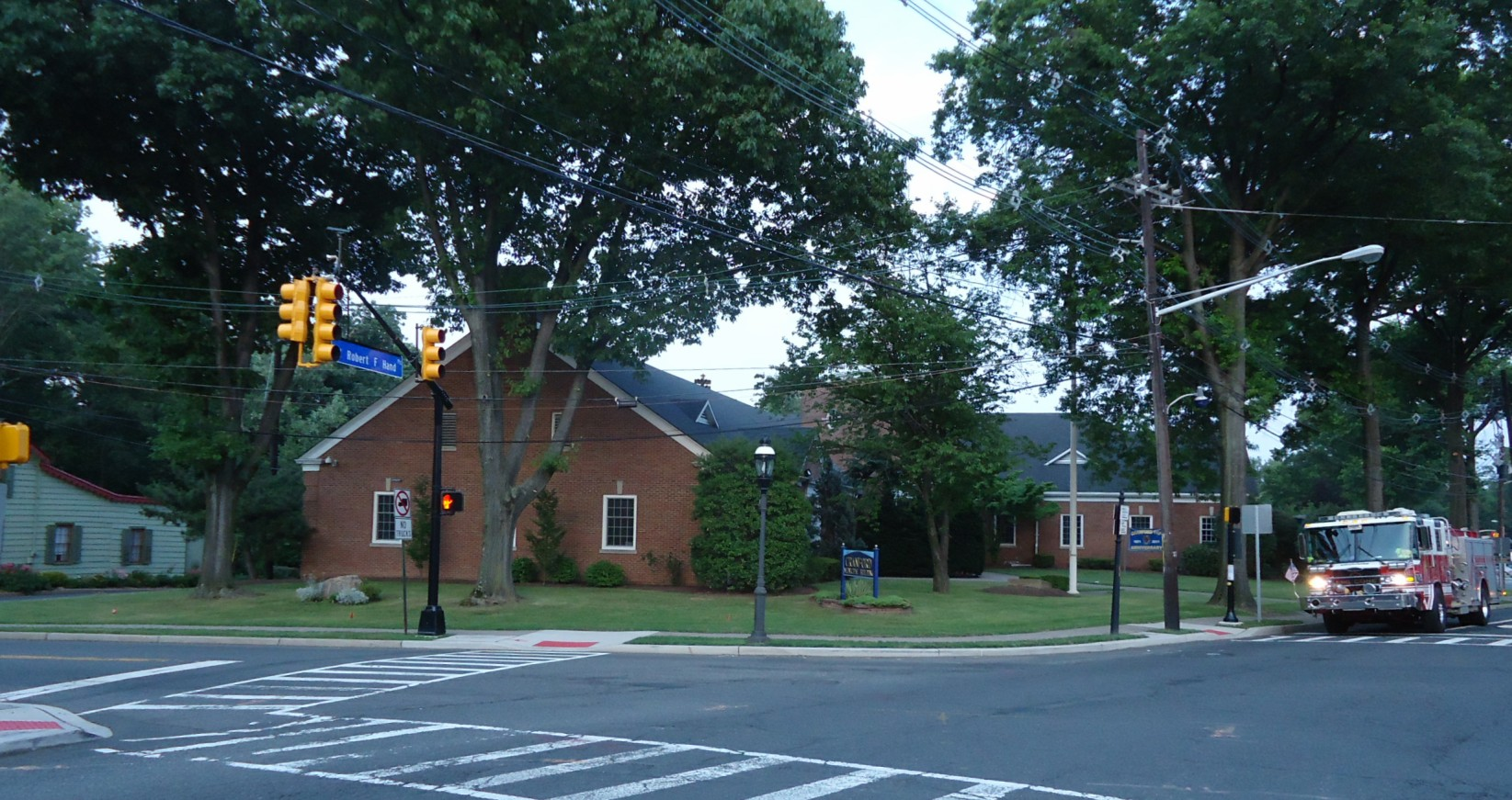 Building and intersection and firetruck in Cranford, New Jersey, near the downtown.